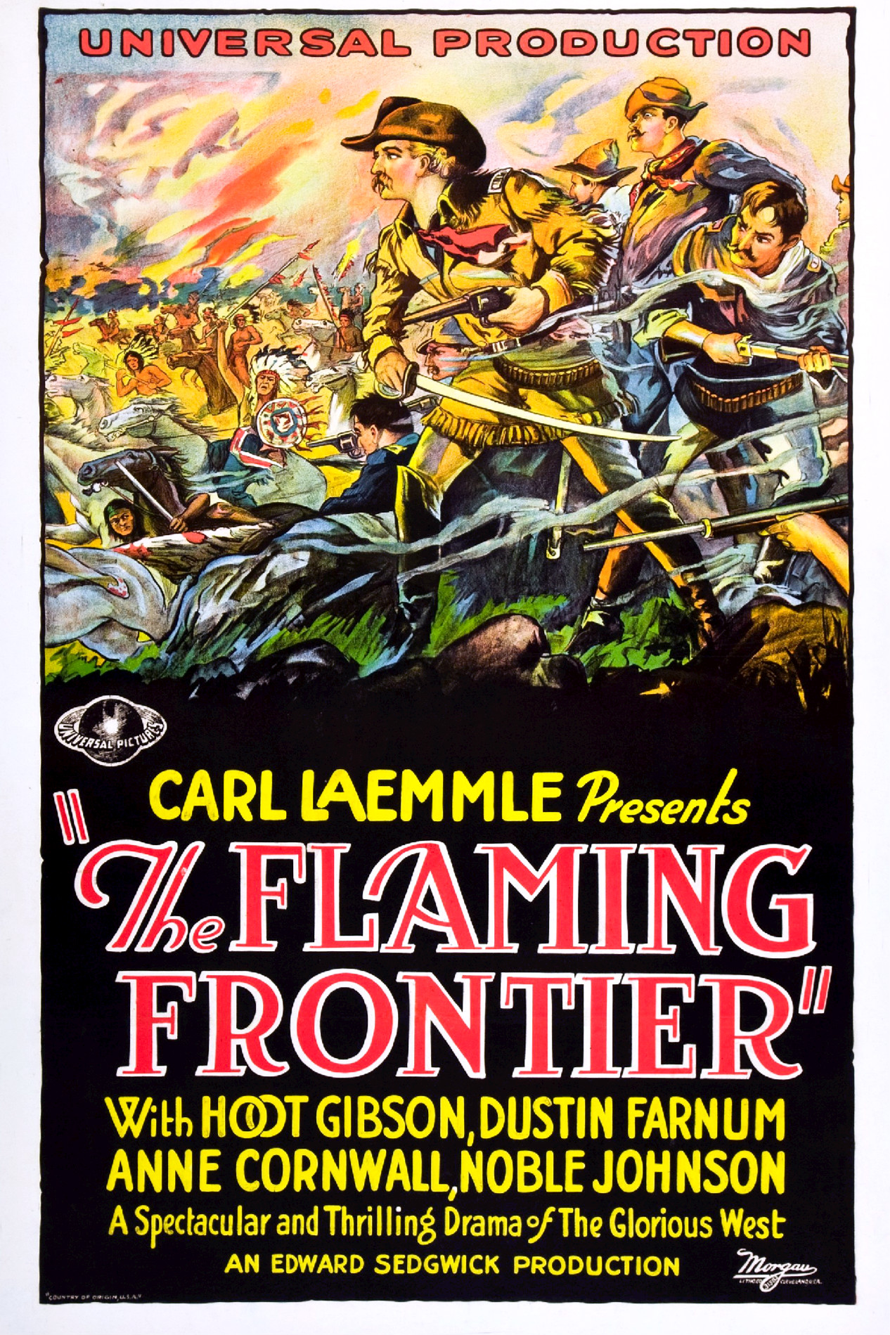 Poster for the 1926 film The Flaming Frontier. There are no copyright marks. At bottom left is Country of origin USA. At bottom right is the logo of the Morgan Litho Co, Cleveland--they printed the poster.